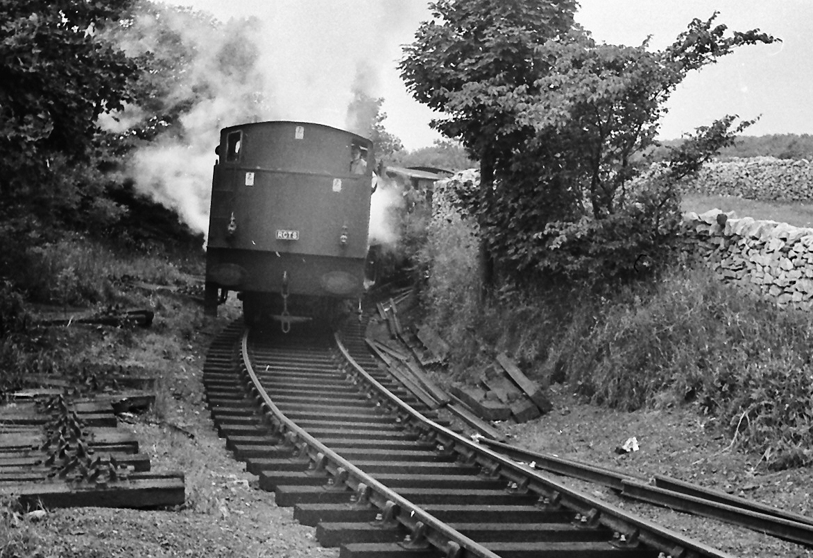 A railway enthusiasts' special train rounds the steeply cambered 90 degree curve at Gotham